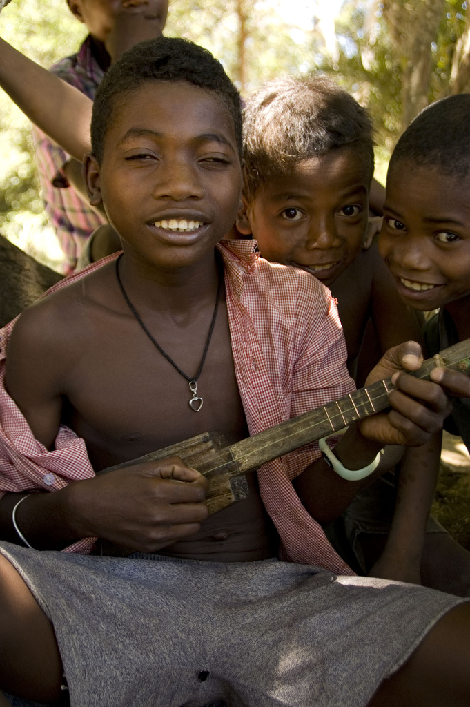 Malagasy boy playing a bush kabosy, otherwise known as a mandoliny, in Fort Dauphin, Madagascar